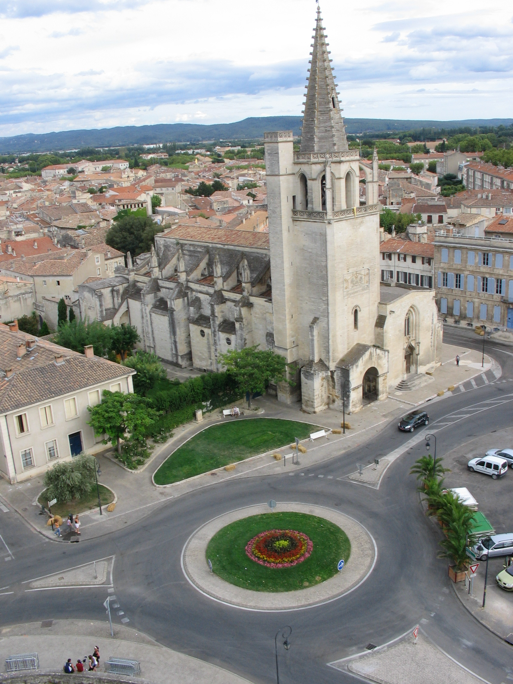 Tarascon, S. Martha collegiate church